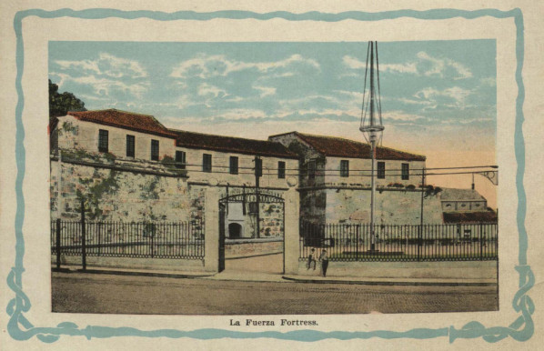 La Fuerza Fortress, Havana, Cuba